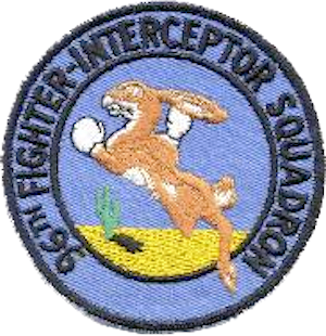 Emblem of the USAF 96th Fighter-Interceptor Squadron (ADC)